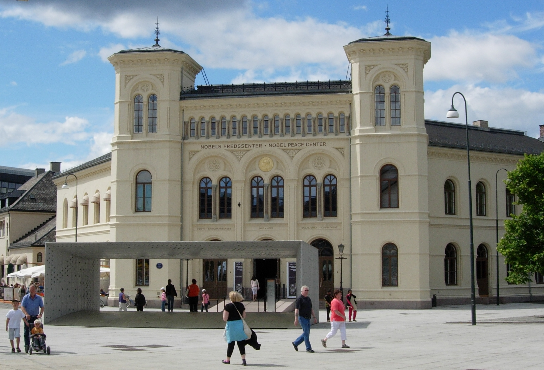 Nobel Peace Center) in Oslo